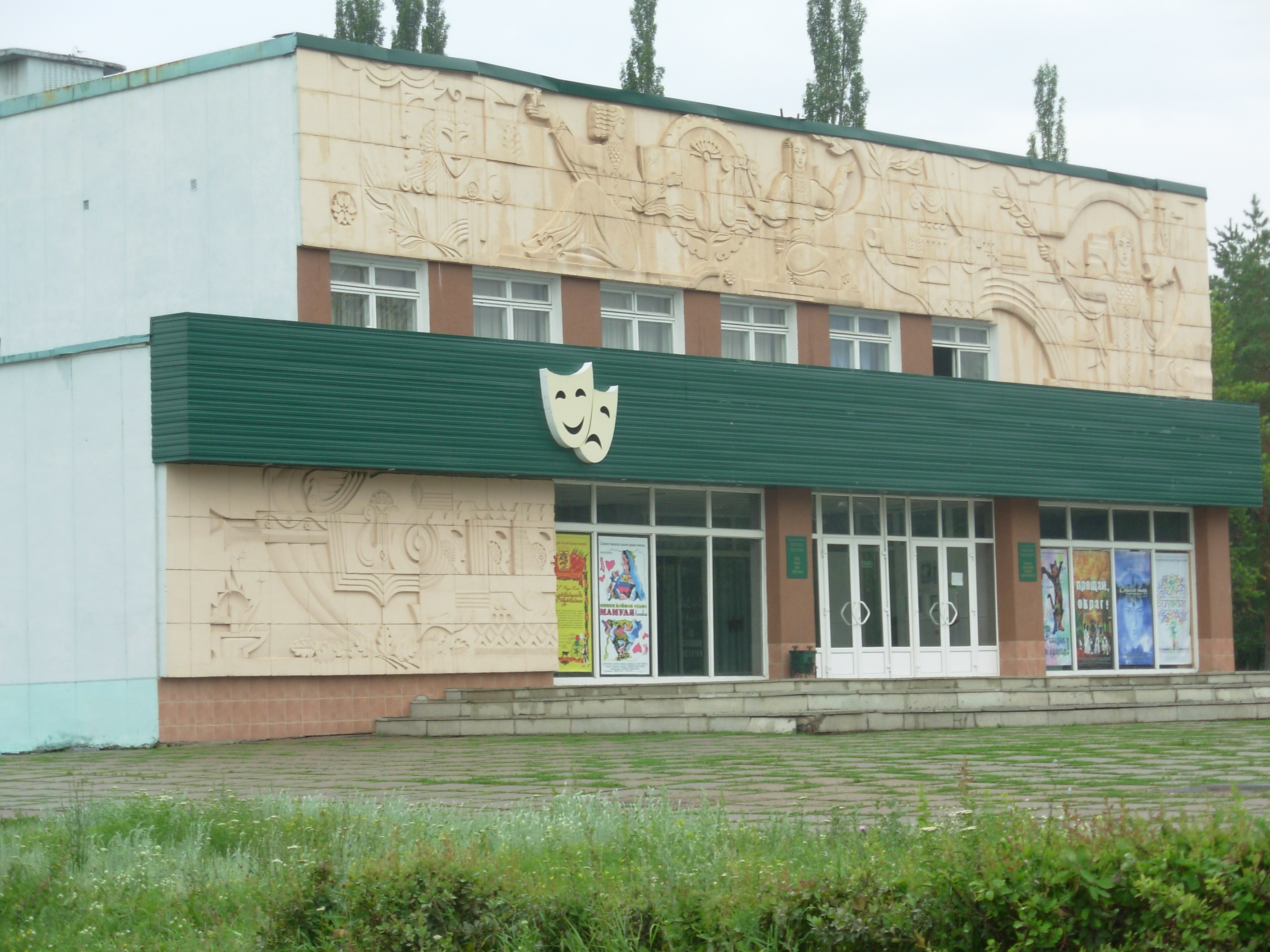 street